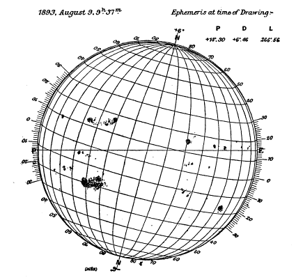 Image of the Sun (9 Aug 1893). Determination of sunspots heliographic coordinates by Stonyhurst disk.